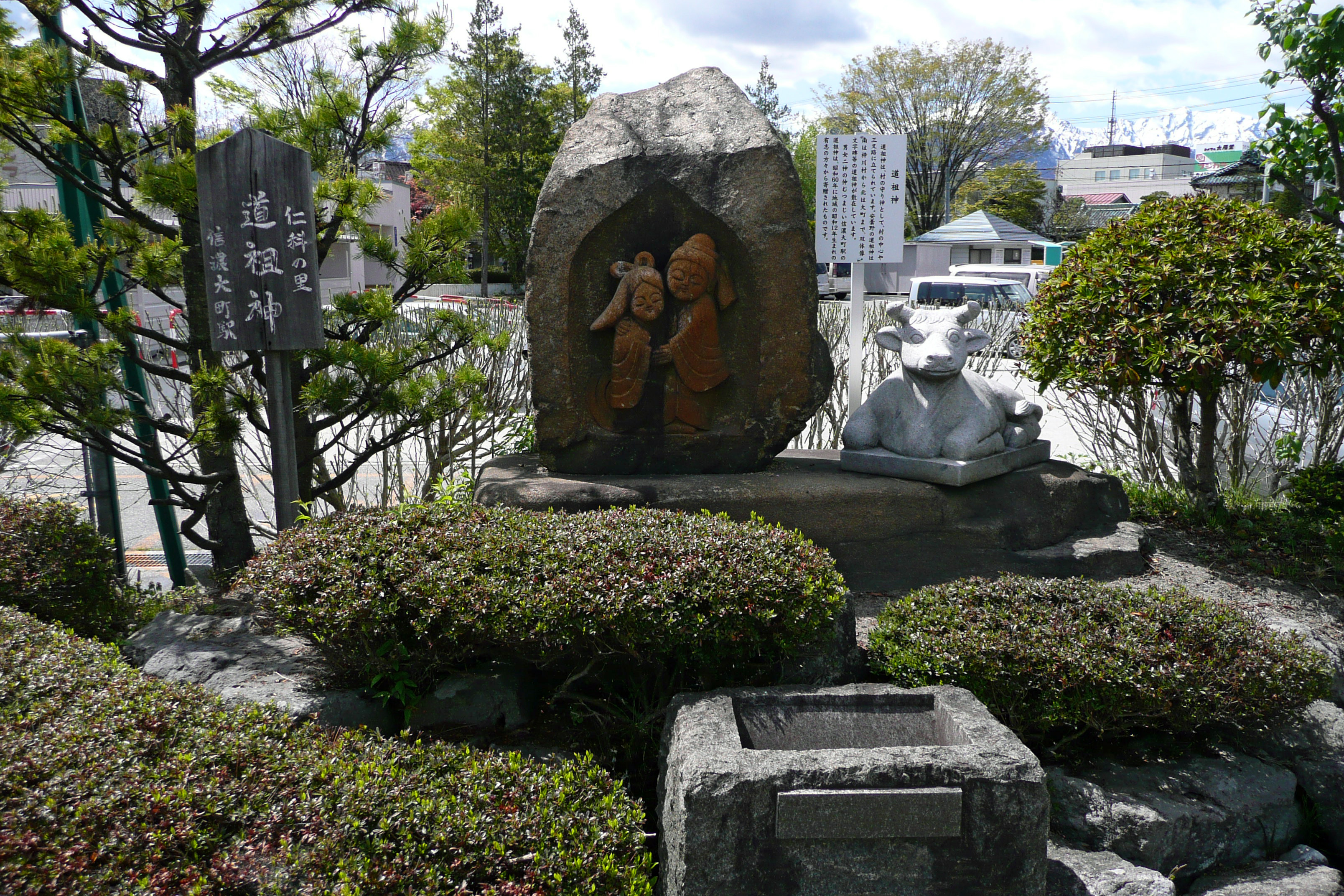 Shinano-Ōmachi Station in Ōmachi, Nagano prefecture, Japan